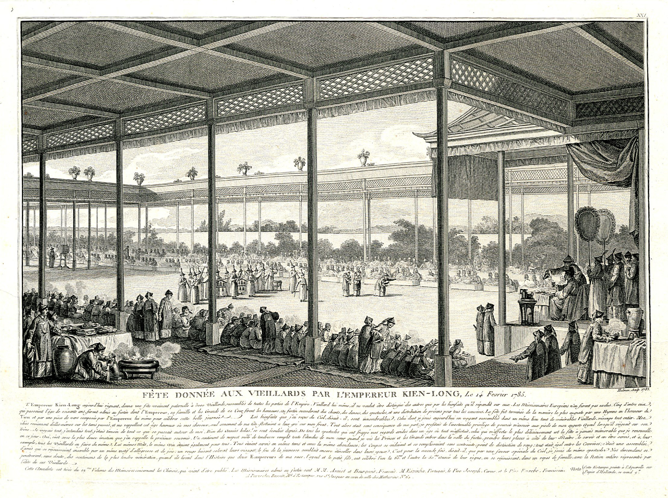 The Qianlong Emperor receives the veterans of a victorious campaign